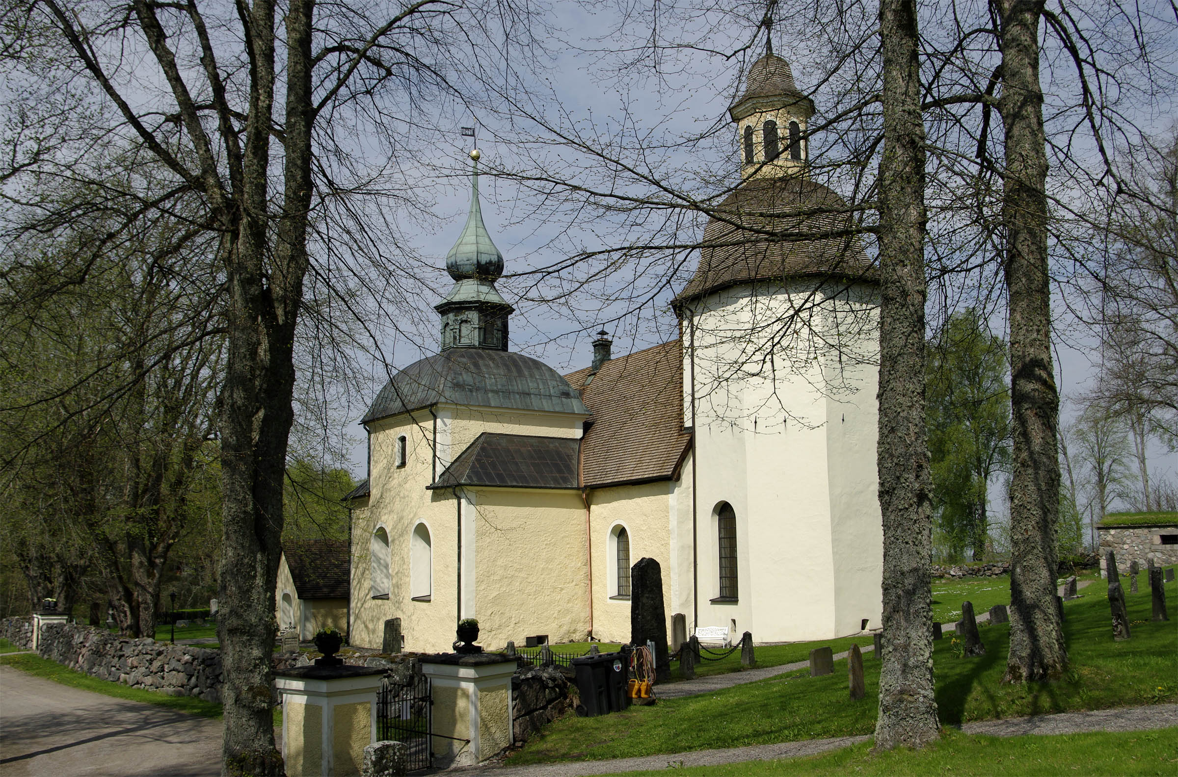 Bälinge church in Sweden with famous wall paintings made by Peder The Painter 1621-1622.